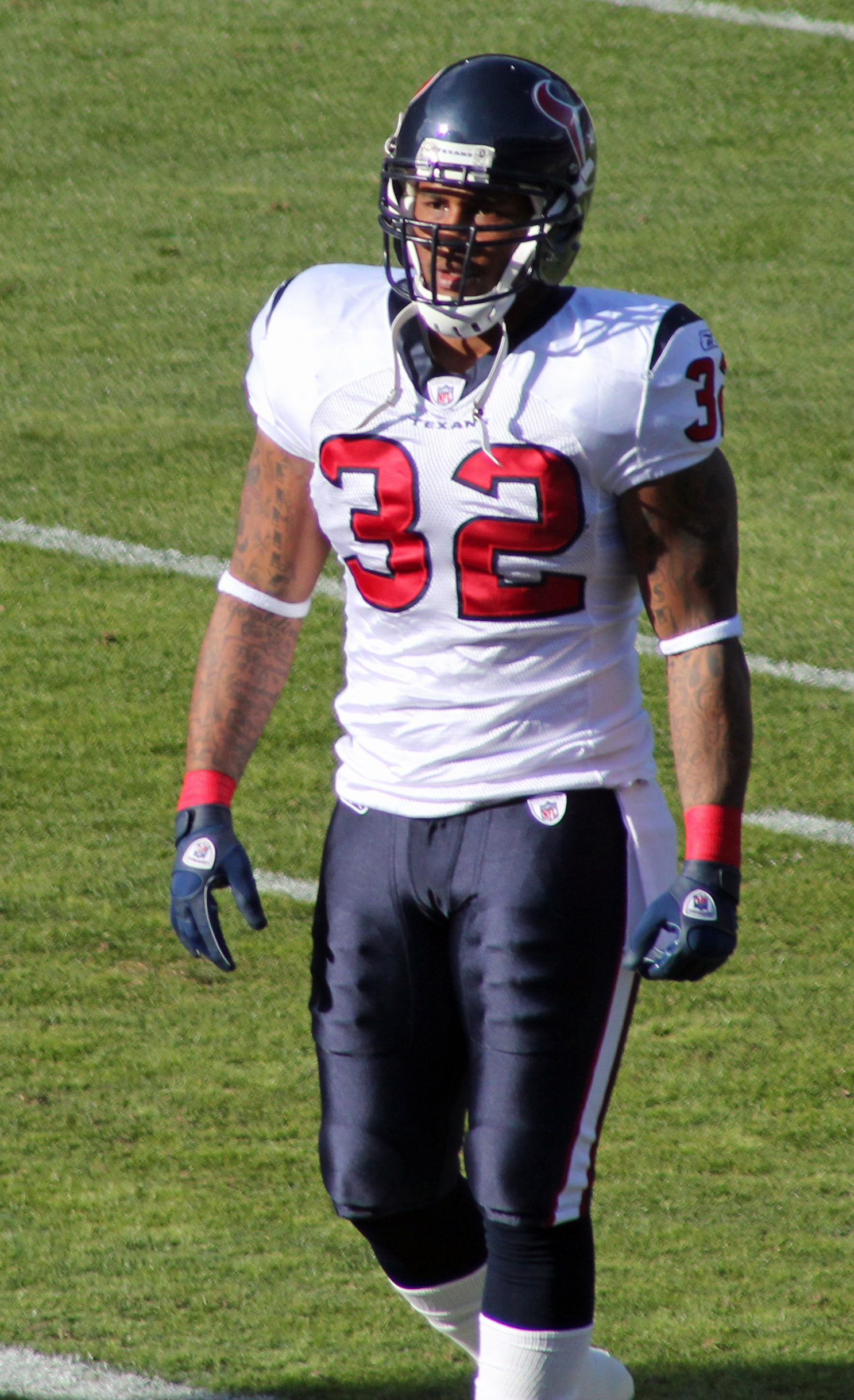 Derrick Ward, a player on the Houston Texans American football team.